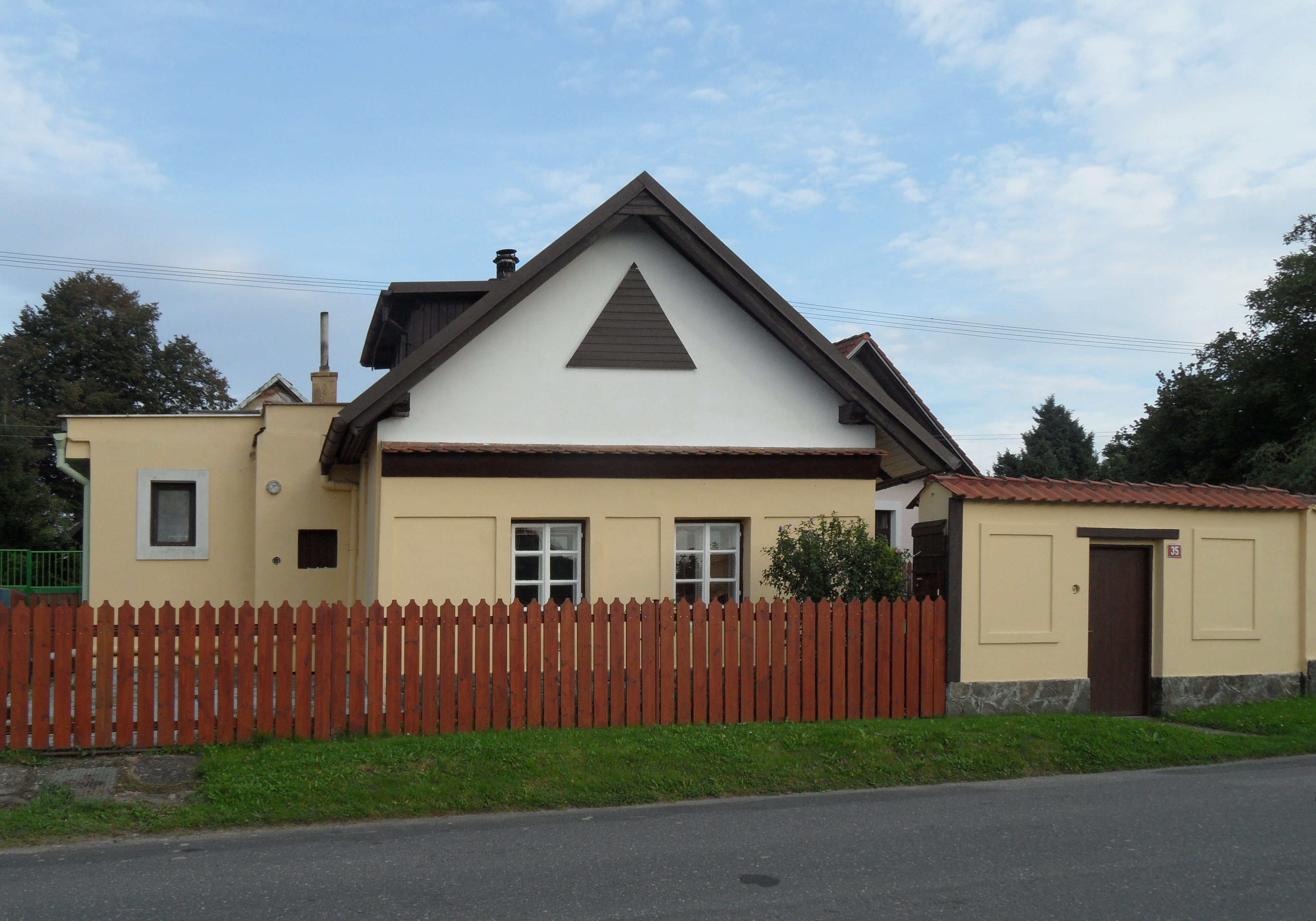 Březí (Zbýšov) A. Large House No 35, Kutná Hora District, the Czech Republic.